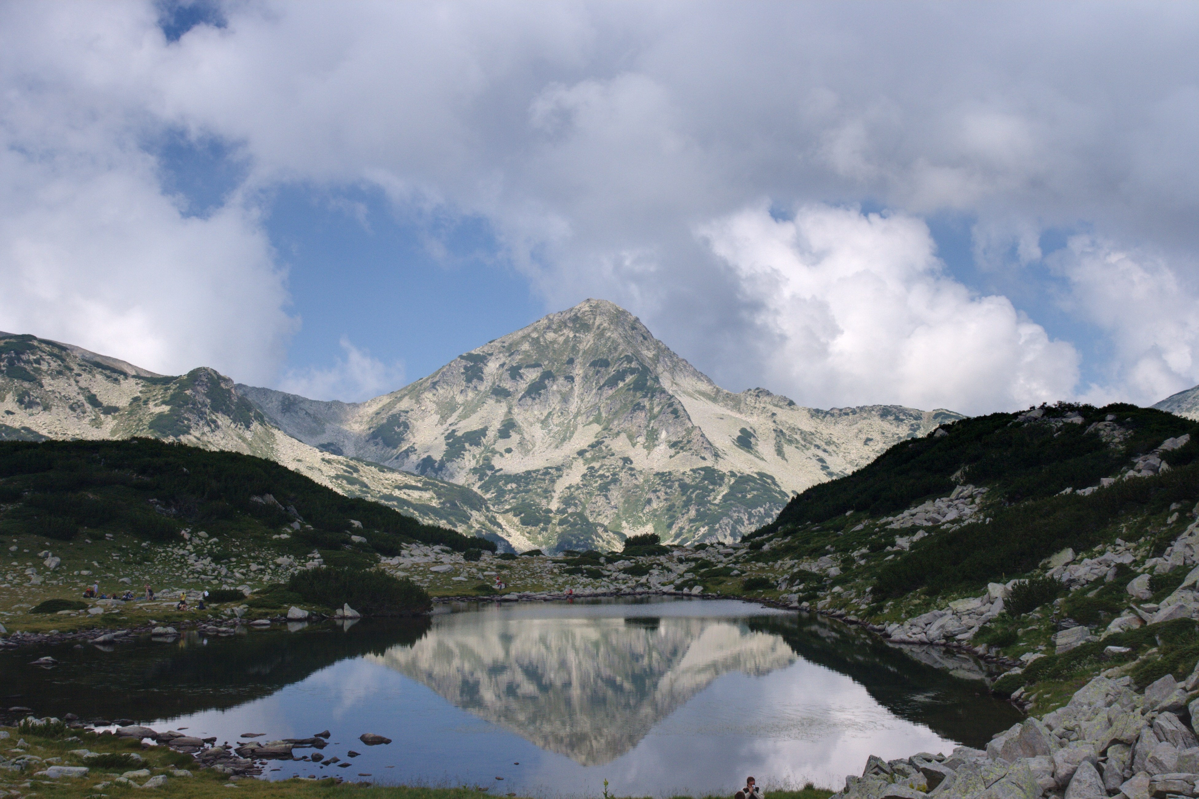 Muratov Peak (2666 m), Pirin massif, from Zhabshko ezero (The Frog Lake).